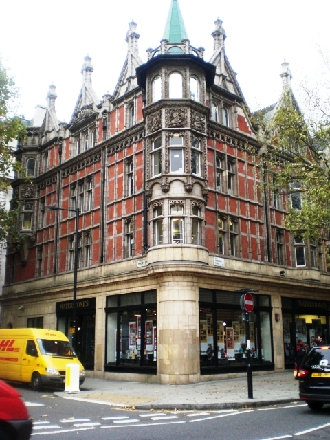 Waterstone's Bookshire, Malet Street WC1 From the junction with Torrington Place WC1